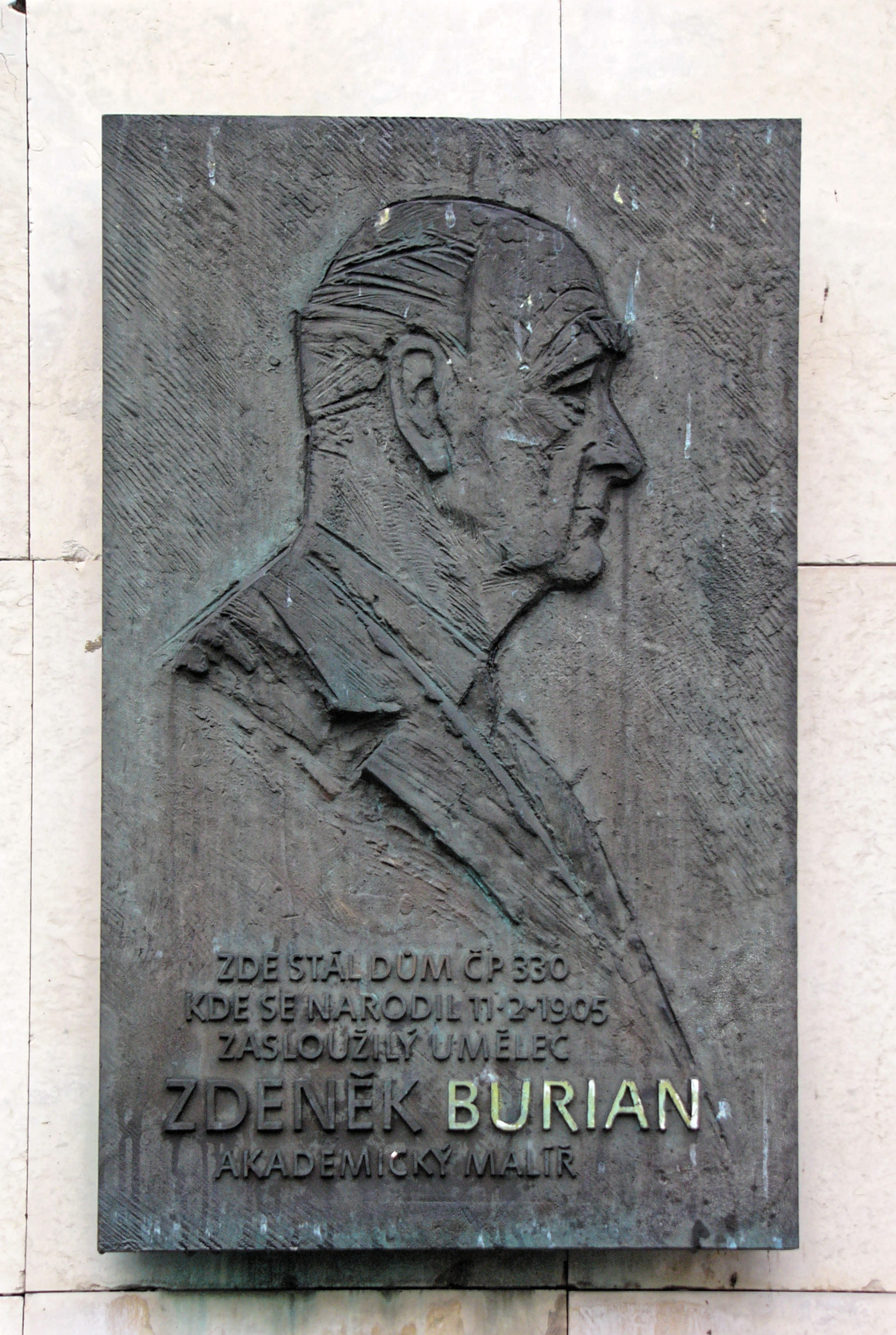 Memorial plaque dedicated to Zdeněk Burian in Kopřivnice (Czech Republic).